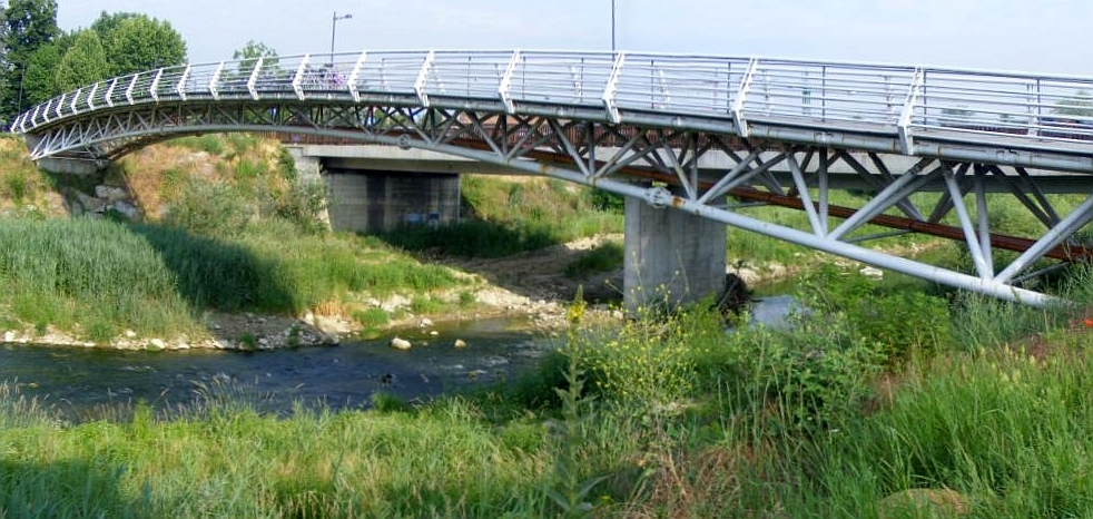 Pedestrian bridge on Borbore creek in Asti (Italy)